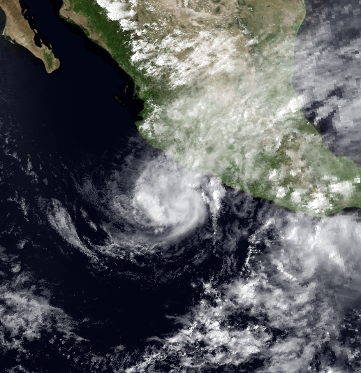 Tropical Storm Agatha on June 3, 1992.